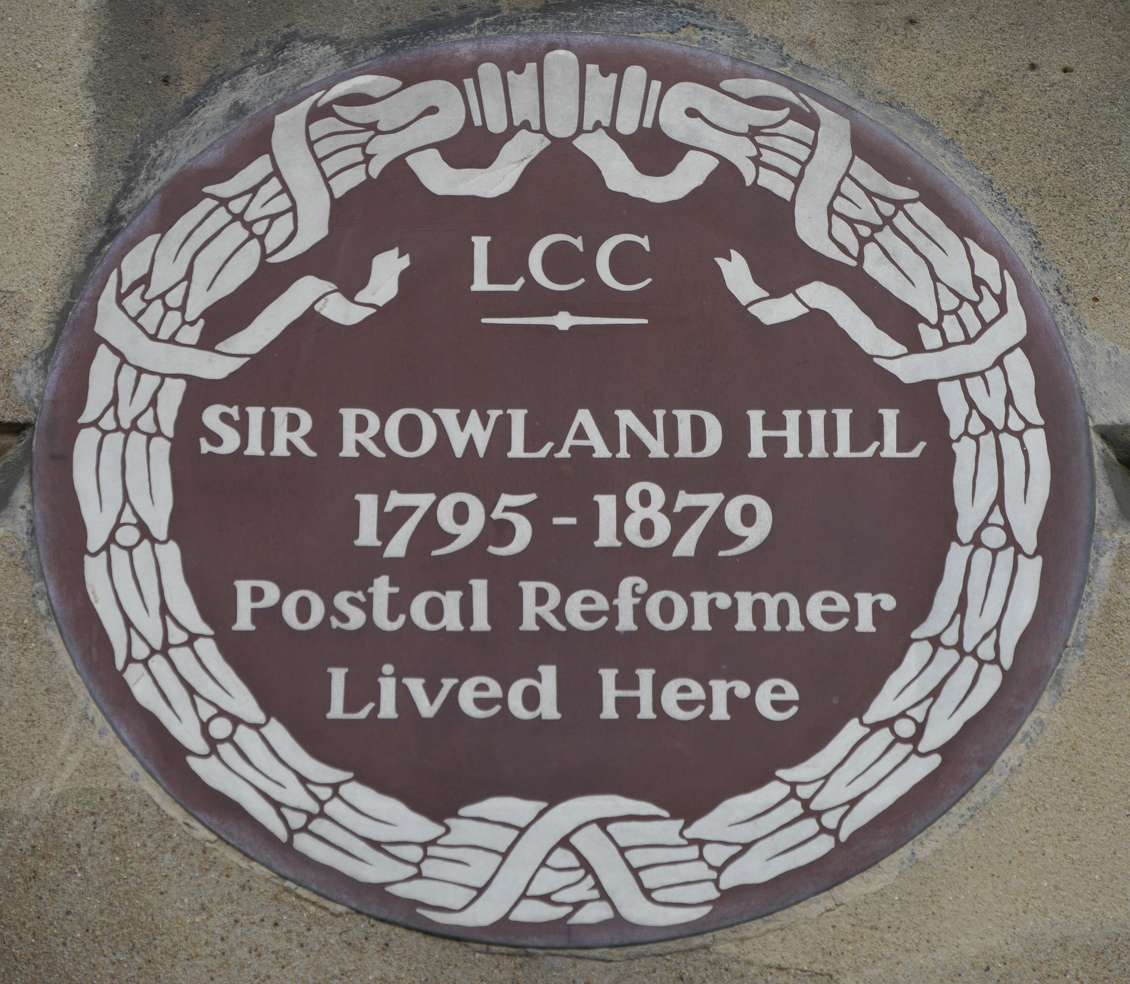 1-2 Orme Square, Bayswater, London, W2